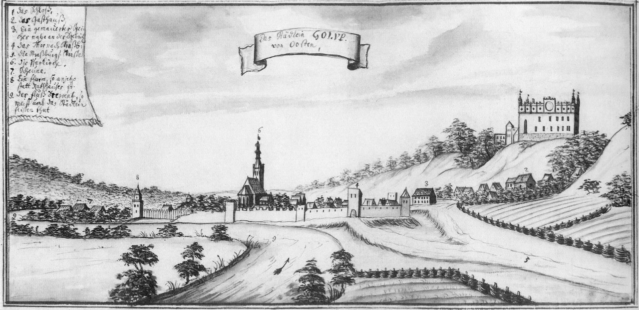 Golub-Dobrzyń, the city and the castle from the east in the years 1738-1745 according to the figure of Georg Friedrich Steiner